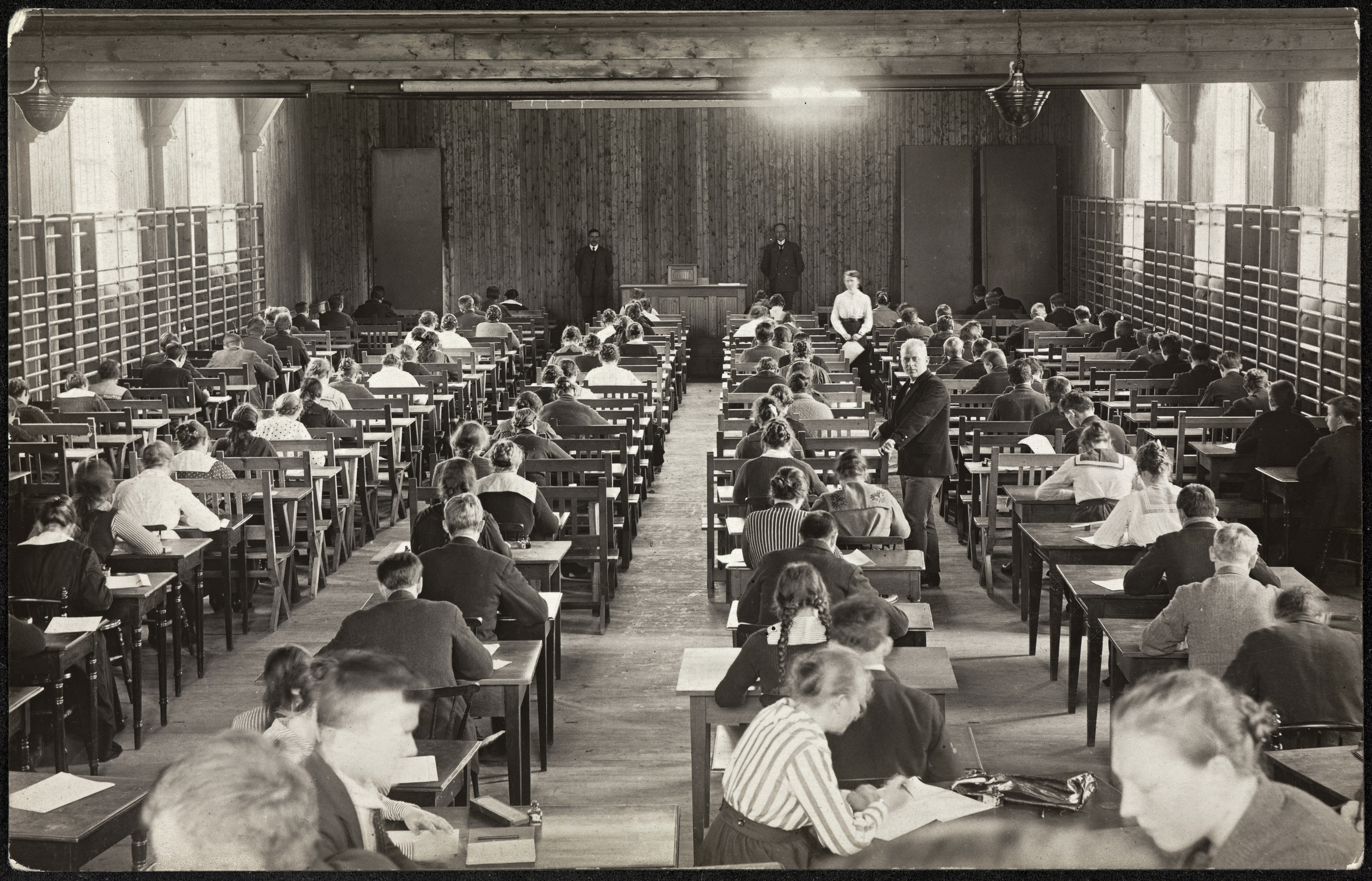 Beskrivelse / Description: Postkort / postcard. Dato / Date: ca. 1920 Fotograf / Photographer: ukjent / unknown Utgiver / Publisher: ukjent / unknown Digital kopi av original / Digital copy of original: s/h postkort, sølvgelatin Eier / Owner Institution: Nasjonalbiblioteket / National Library of Norway Lenke / Link: Bildesignatur / Image Number: blds_06716